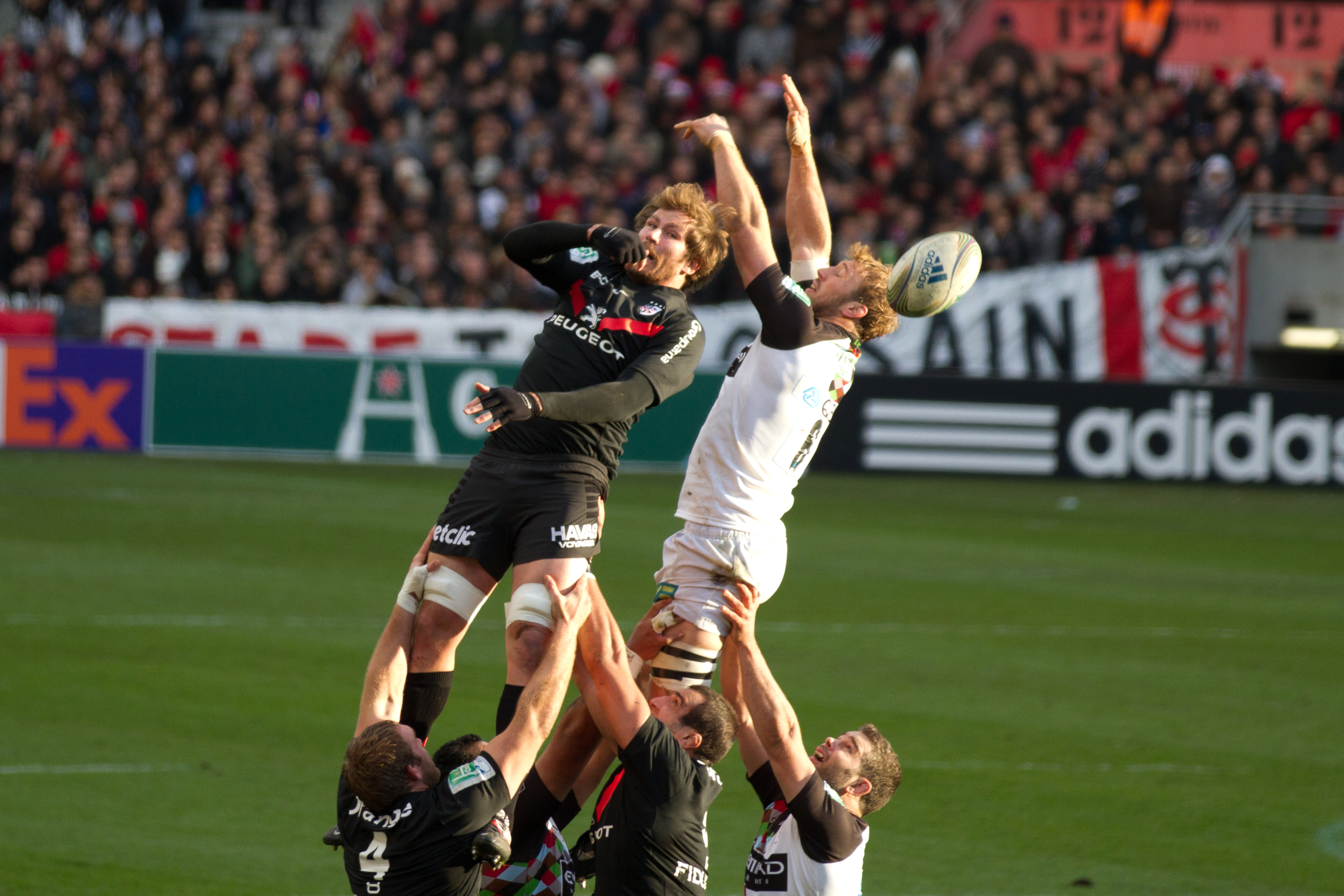 Shawn Sowerby deflects a ball during a line-out